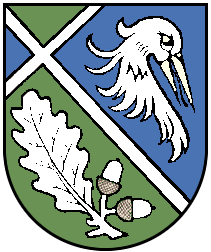 Coat of arms of Oßling in Saxony, Germany. Hornjoserbsce: Wopon gmejny Wóslinka.